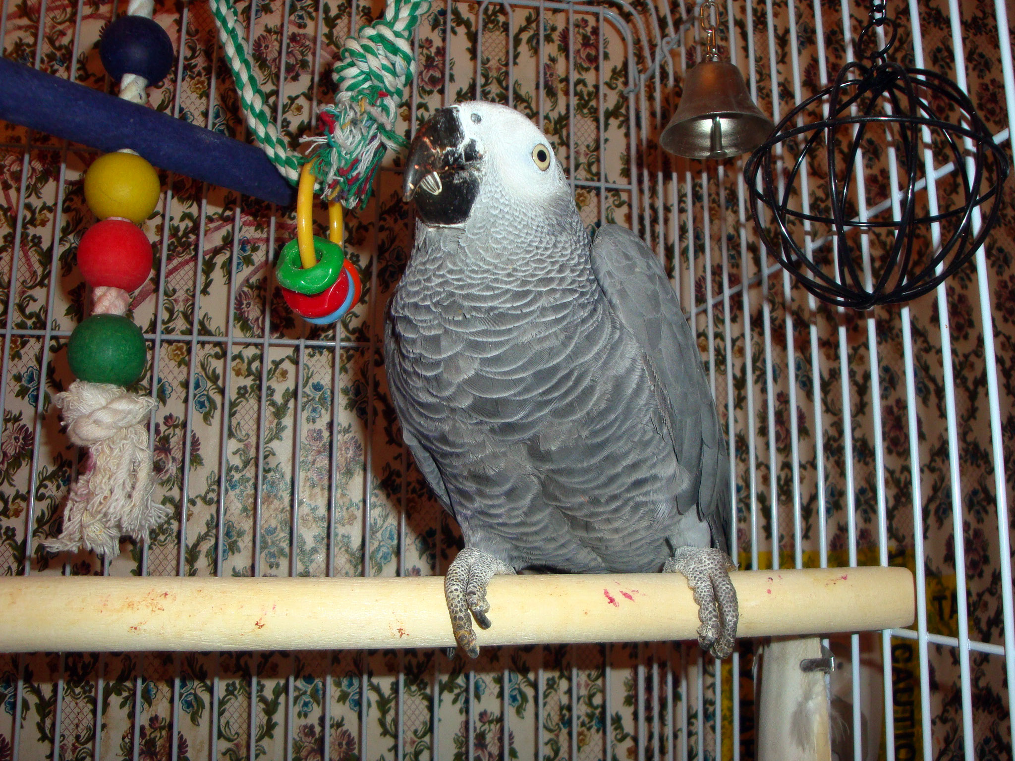 An African Grey Parrot perching on a wooden perch in a cage.